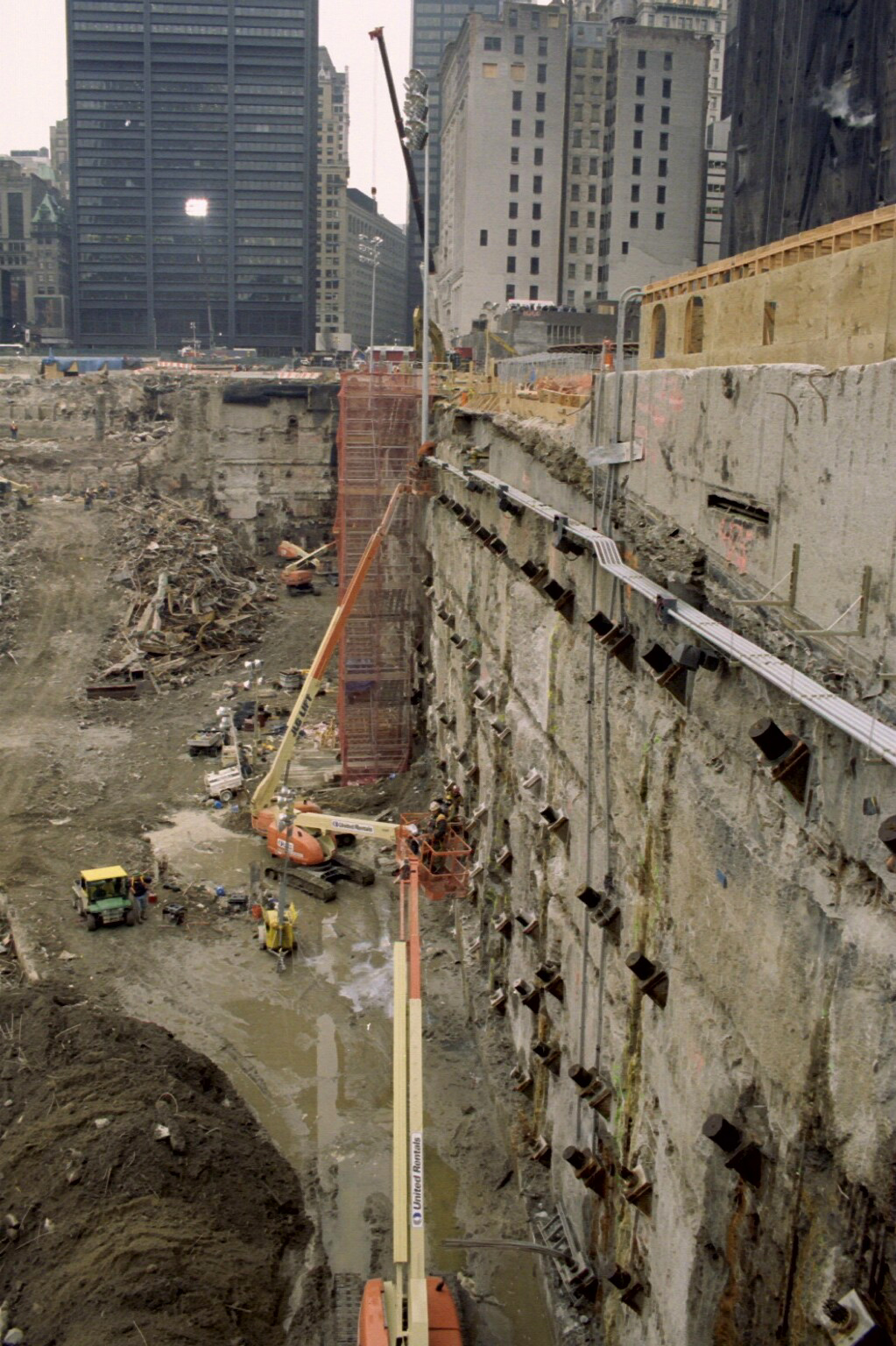 New York, NY, March 15, 2002 -- Personnel at Ground Zero tie back and reinforce the exposed slurry wall. The structure, which runs the perimeter of the crater, is monitored around the clock for movement and is holding up well. Its function is to counter the natural action of ground soil to push inward, into the hole where the World Trade Center complex once stood. Photo by Larry Lerner/ FEMA News Photo